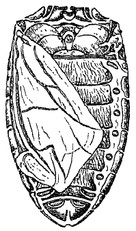 Spiracles (on right) under elytra of adult Dytiscus